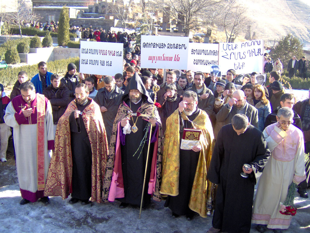 People in Vanadzor, Armenia protest against assassination of Hrant Dink during the Commemoration ceremony